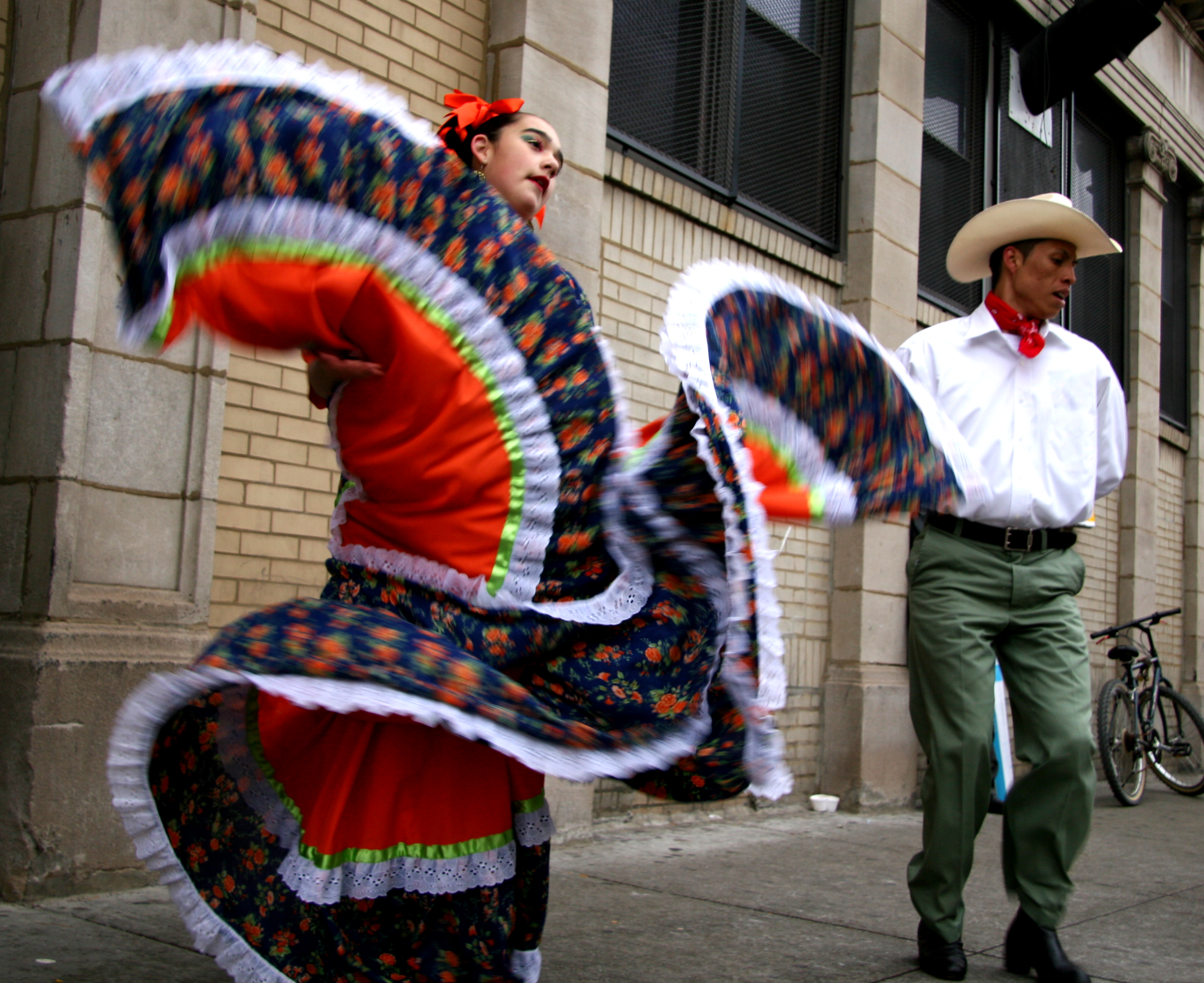 another